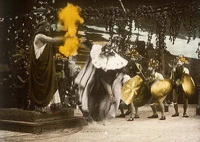 Scene where the King meets his namesake of Jupiter.